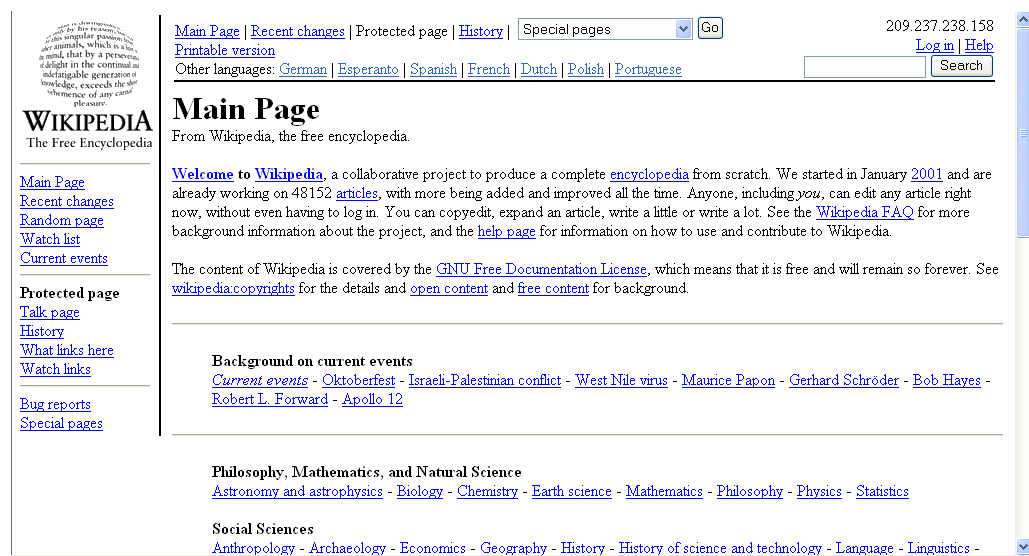 An Old Version of Wikipedia, taken on September 28th, 2002. Taken by my self, using a screen snapshot program.